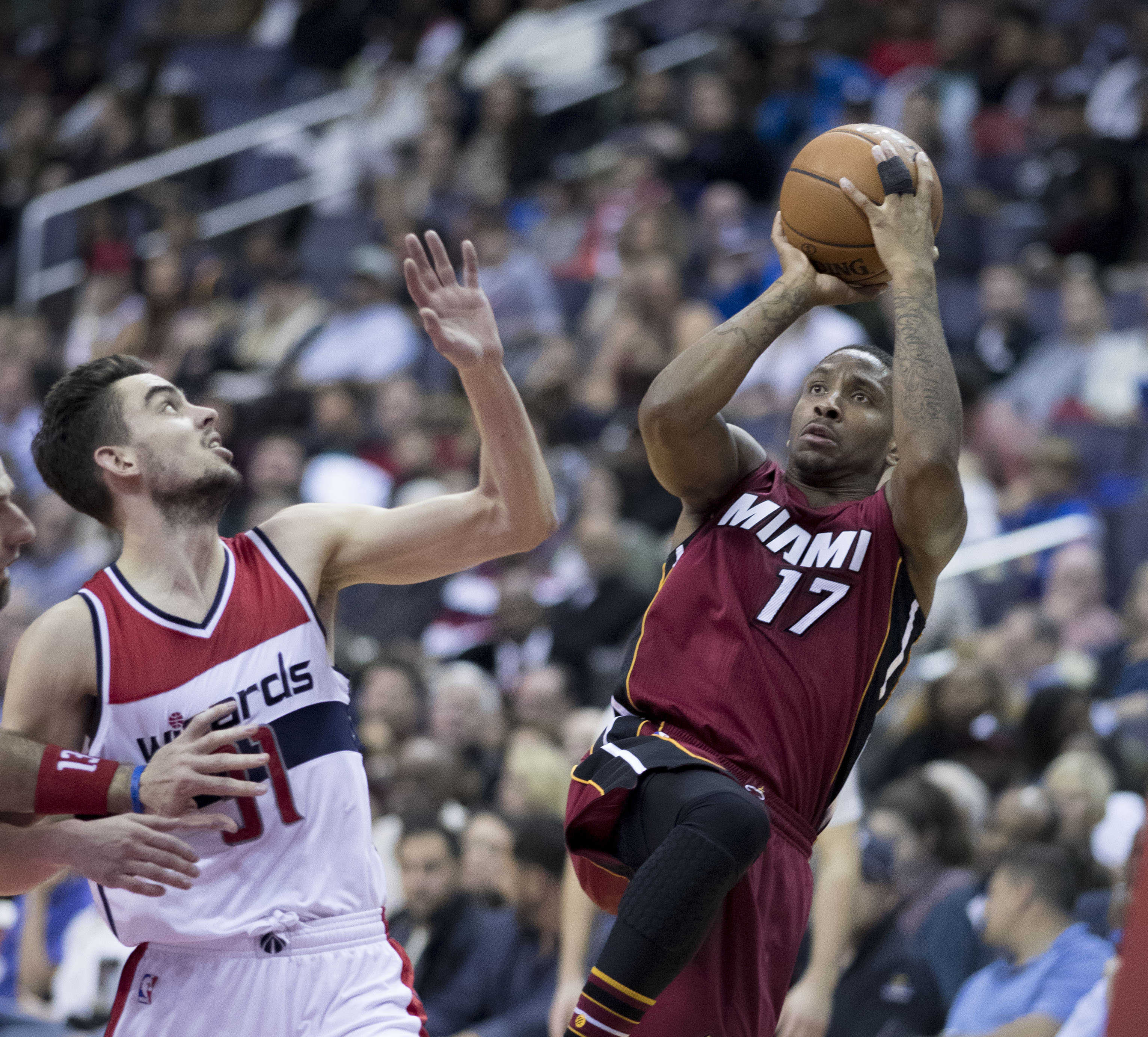 Heat at Wizards 11/19/16